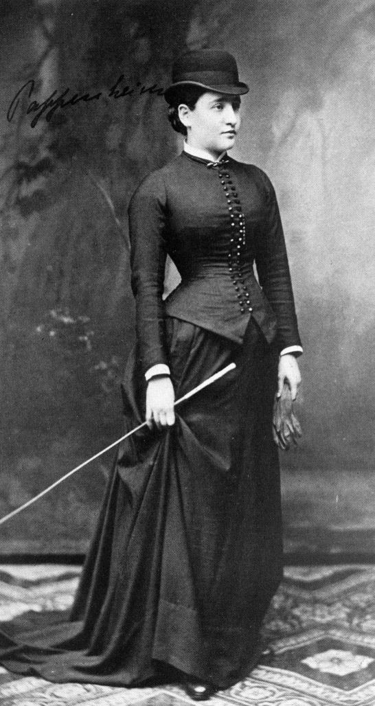 Bertha Pappenheim 1882 (22 years old). Photography from the archive of Sanatorium Bellevue, Kreuzlingen, Germany.